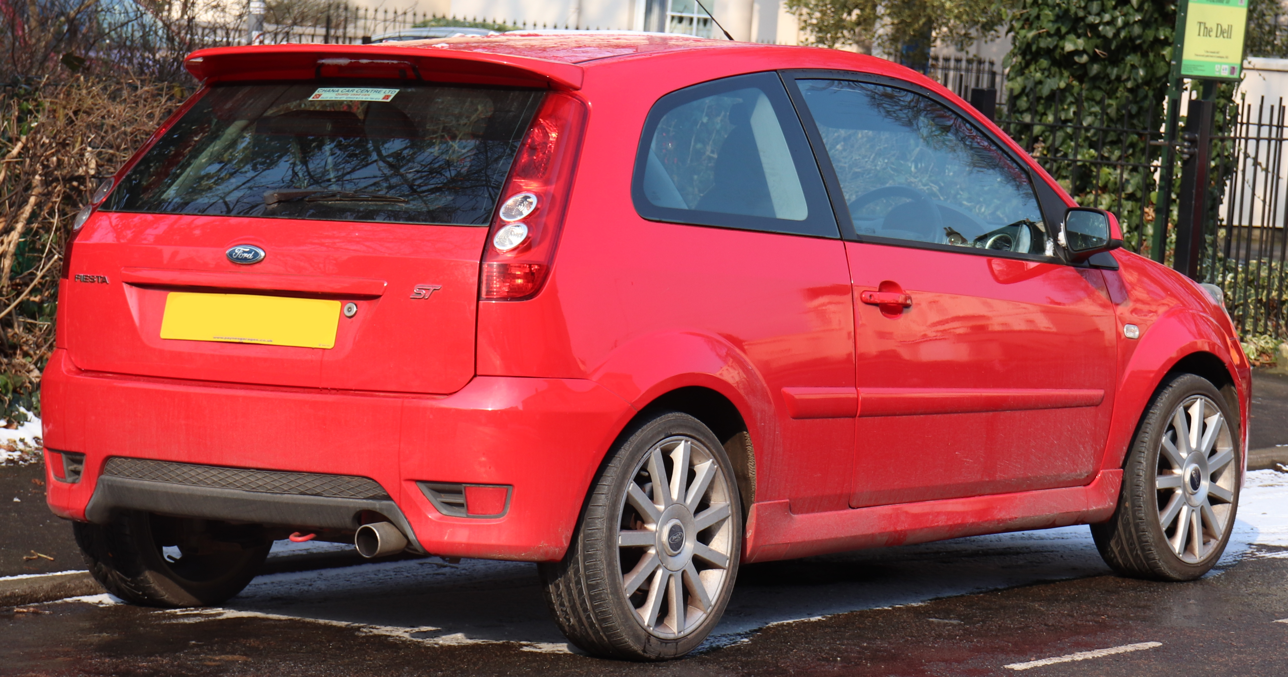 2006 Ford Fiesta ST 2.0 Rear Taken in Leamington Spa